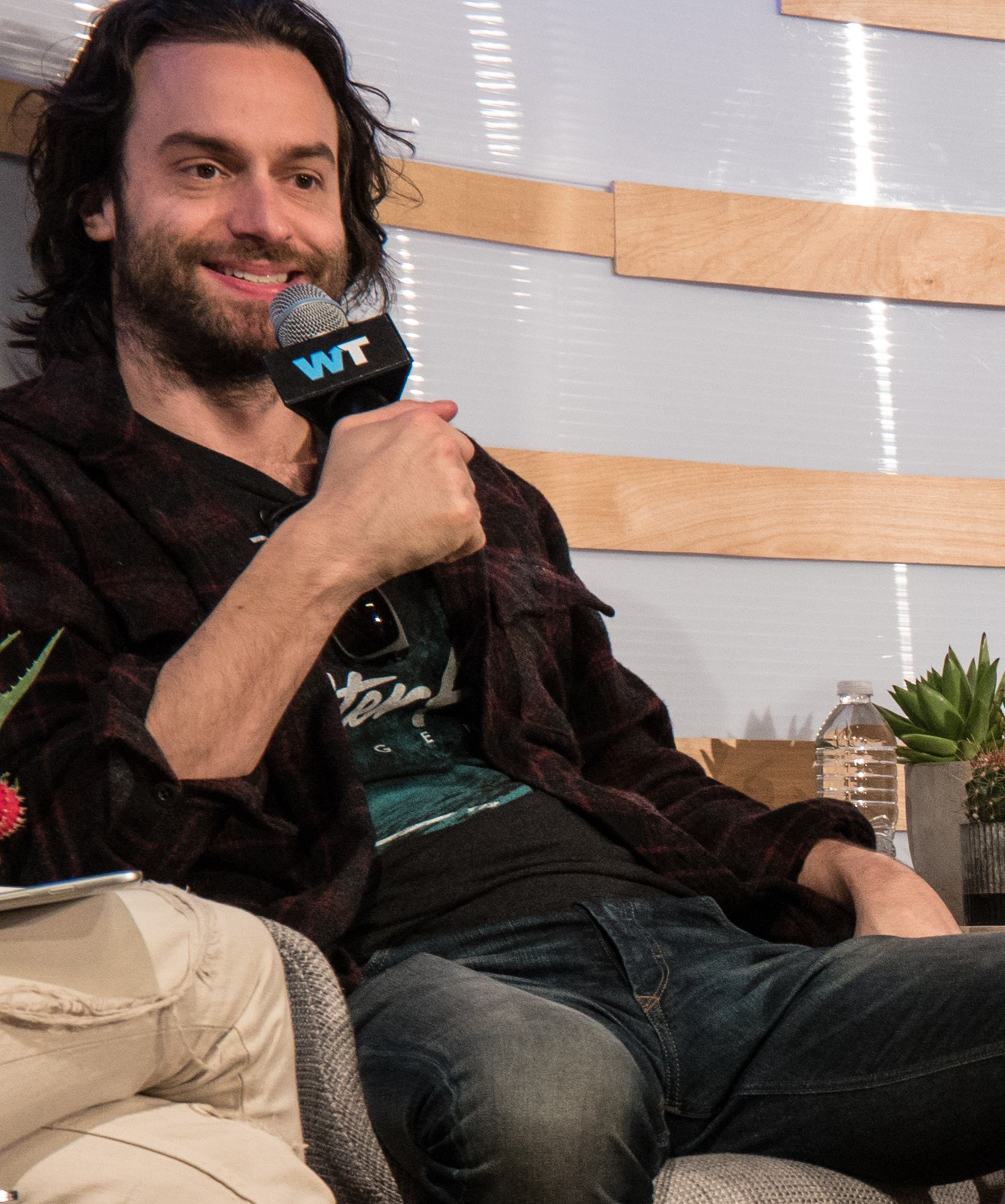 Chris D'Elia at South by Southwest 2015